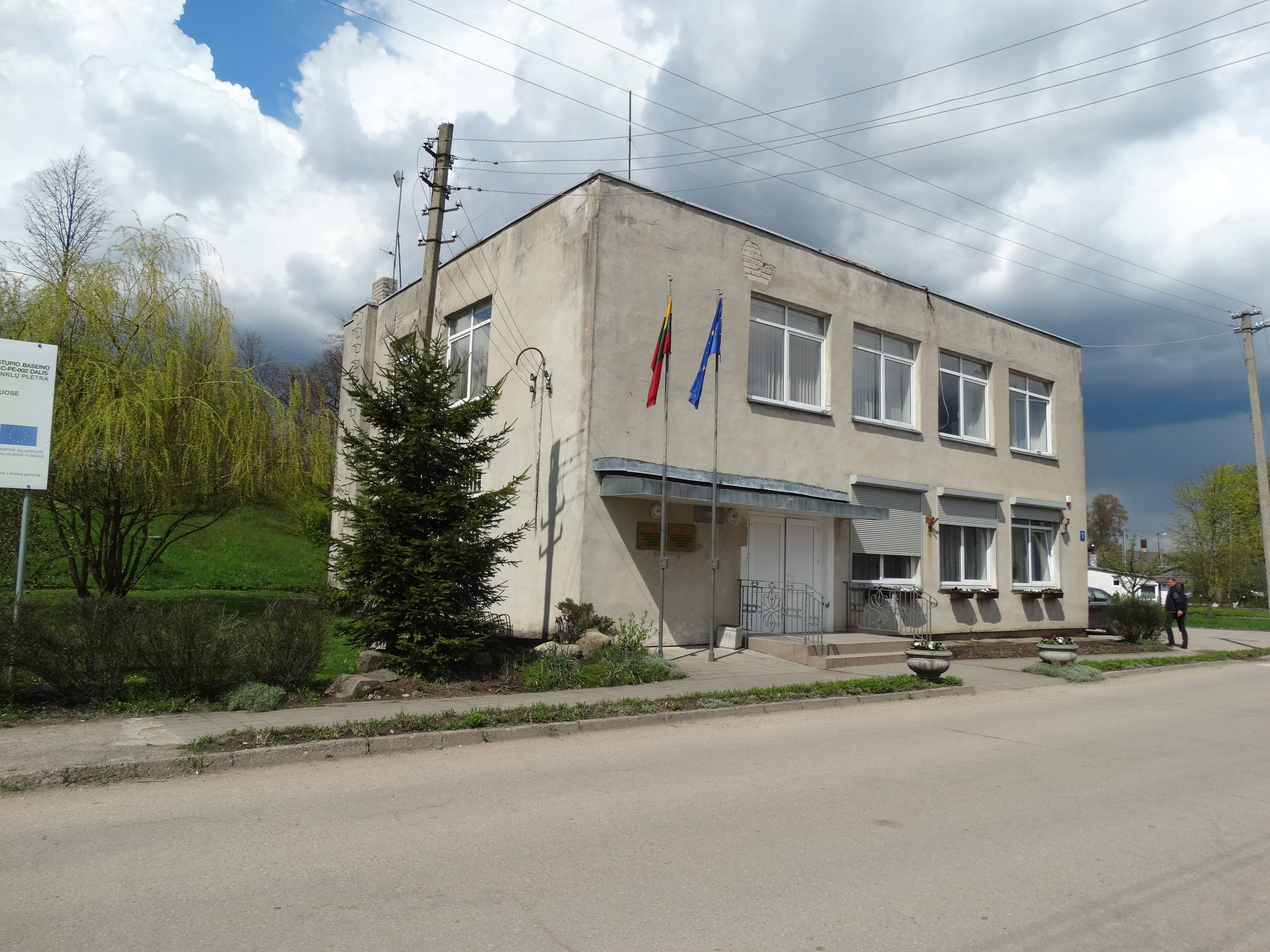 Eldership, Jašiūnai, Šalčininkai District, Lithuania